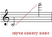 Range of a Cor anglais.